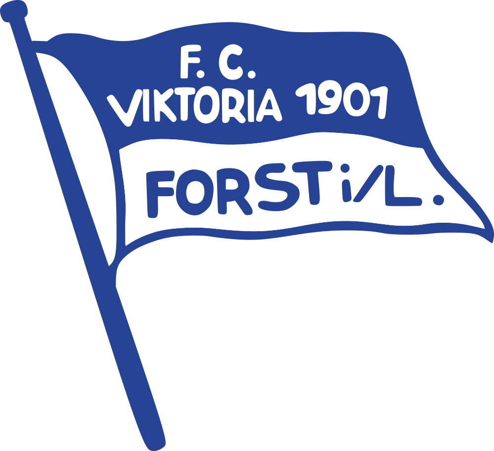 Logo of former german football club FC Viktorai Forst (1901 - 1945)